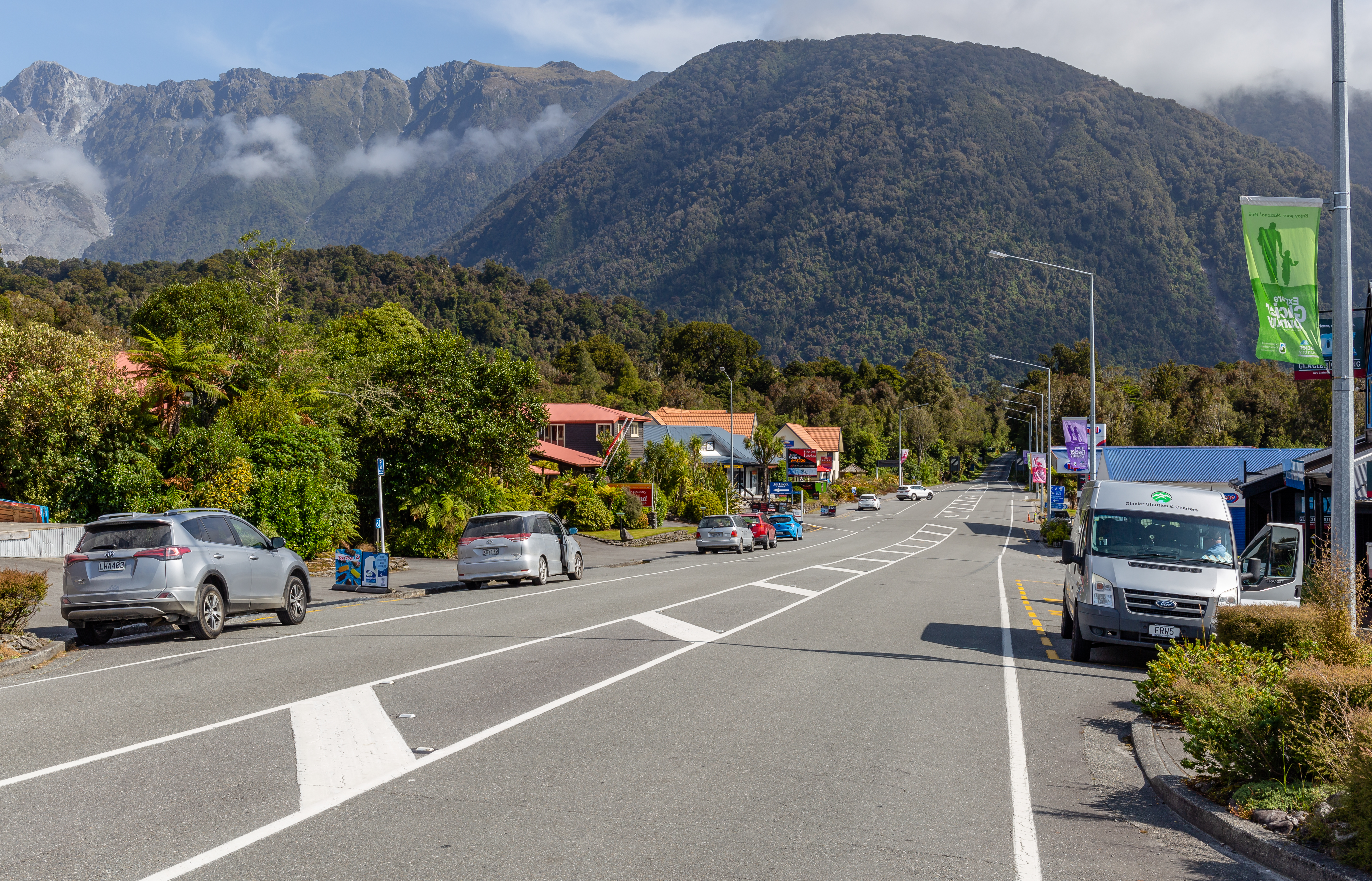 State Highway 6, Fox Glacier, West Coast Region, New Zealand